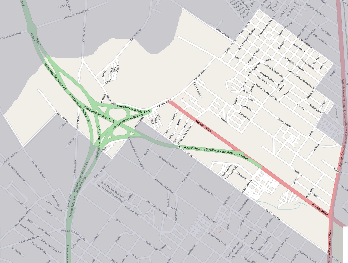 Street map of Conciliación, Montevideo, exported from OpenStreetMap. I added shading to delimit the barrio. This map may be incomplete, and may contain errors. Don't rely solely on it for navigation.